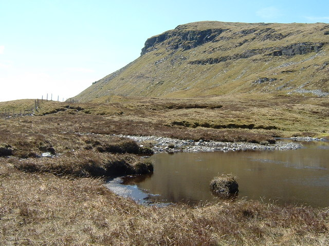 Lochan to the west of the col under Beinn Udlaidh An un-named lochan just above the forest fence.